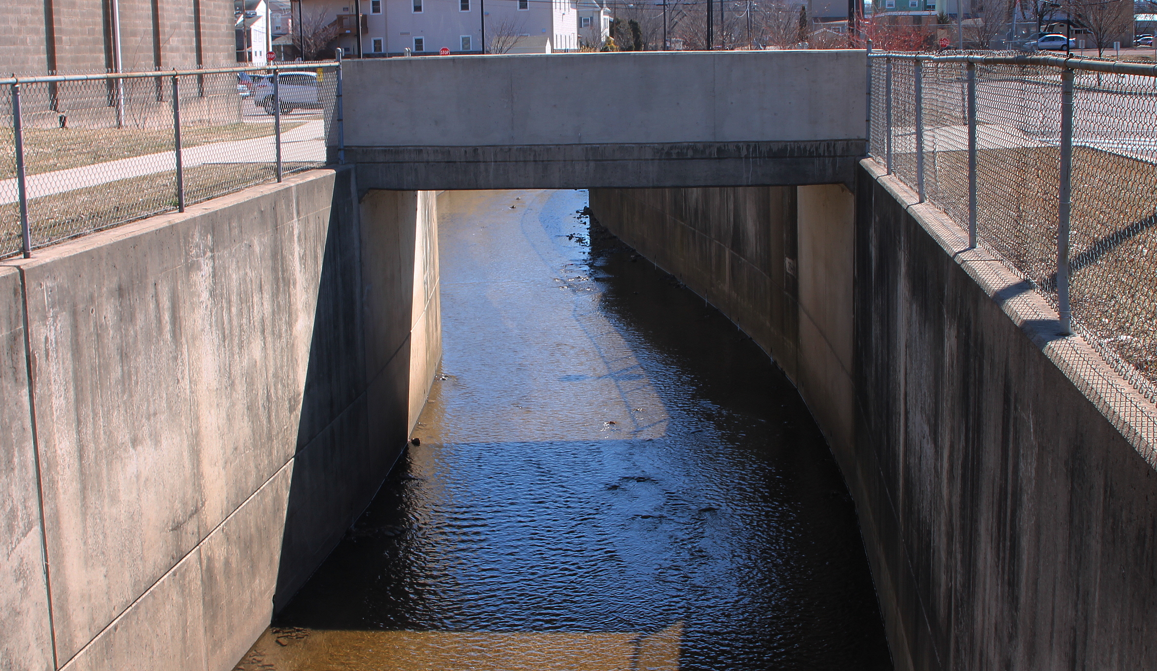 Sechler Run looking upstream from Ferry Street, in its lower reaches. Note the high retaining walls.